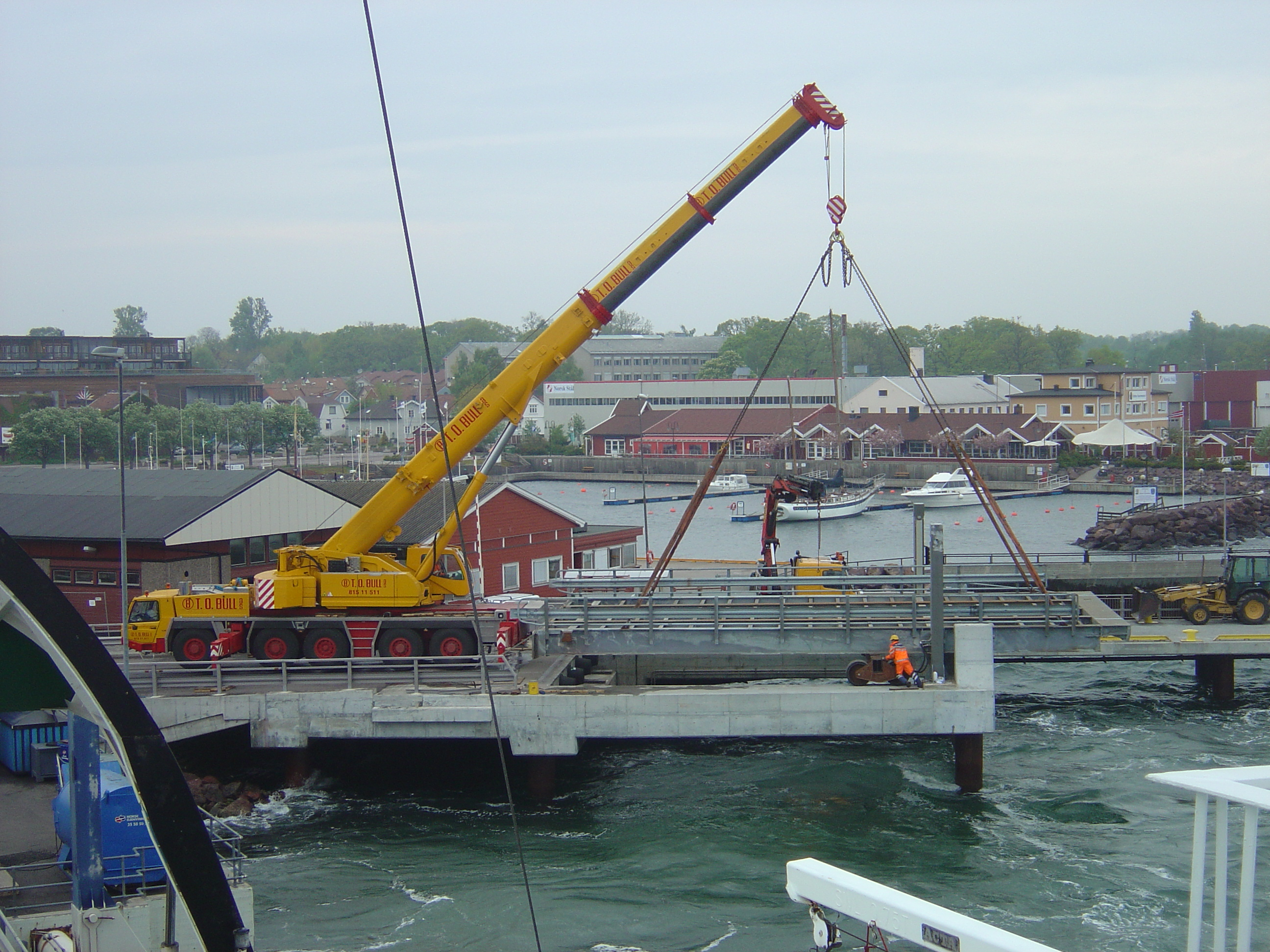 Ferry terminal in Horten, Norway, under repair after collision